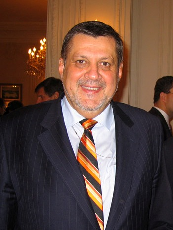 Ján Kubiš - Minister of Foreign Affairs of Slovak Republic